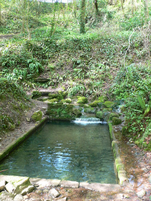 St Dyfnog's Well, Llanrhaeadr yng Nghinmeirch The Well is situated behind the graveyard at St. Dyfnog's, a short walk through the woods leads you to a quiet ,wooded dell. The water springs from the hillside in several places and collects in a large spa like pool with steps down into the water for the faithfull.